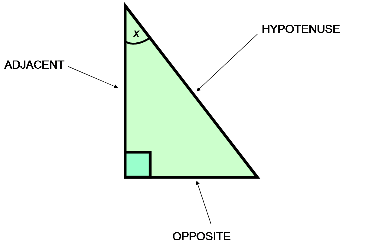 A diagram indicating the locations of the Adjacent, Opposite and Hypotenuse on a right-angled triangle.